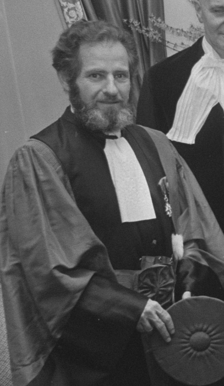 Jean-Claude Pecker in the French embassy in The Hague, 1970